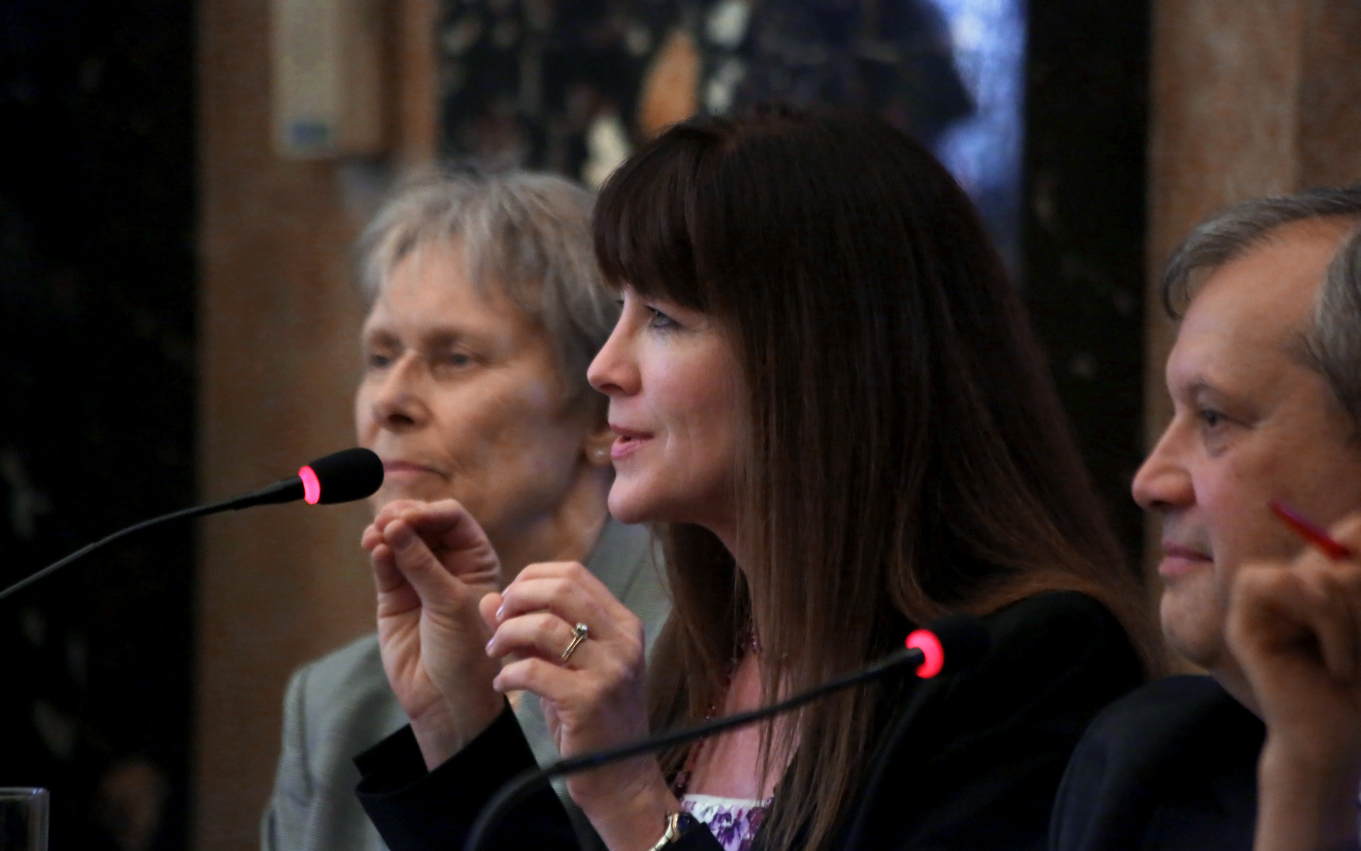 Women in Space: The Next 50 Years (Celebrating 50 Years of Women in Space) - public panel and discussion on invitation of UNOOSA with Roberta Bondar, Janet L. Kavandi, Dumitru-Dorin Prunariu, Chiaki Mukai and Liu Yang (Naturhistorisches Museum in Vienna, Austria).